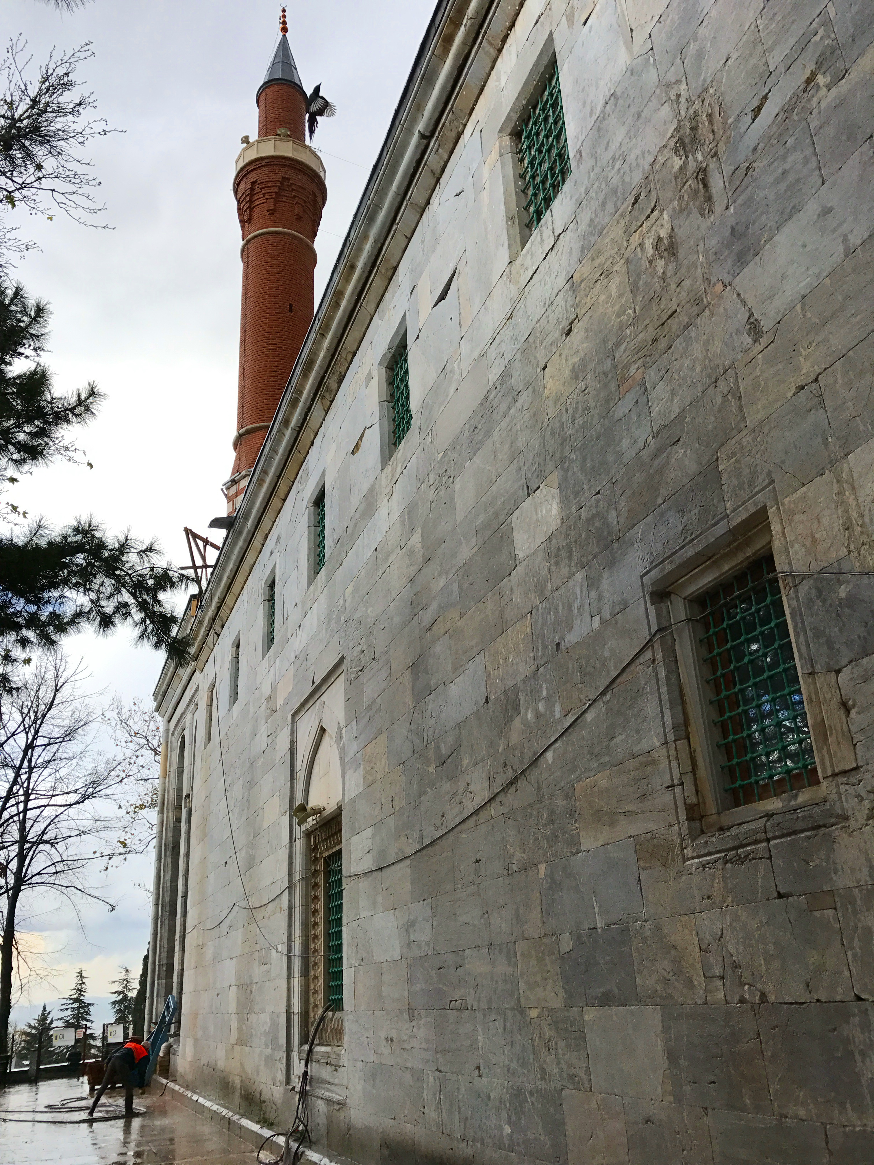 Bayezid I Mosque is a historic mosque in Bursa, Turkey, that is part of the large complex (külliye) built by the Ottoman Sultan Bayezid I (Yıldırım Bayezid – Bayezid the Thunderbolt) between 1391–1395. This picture was taken during 2017's renovations.